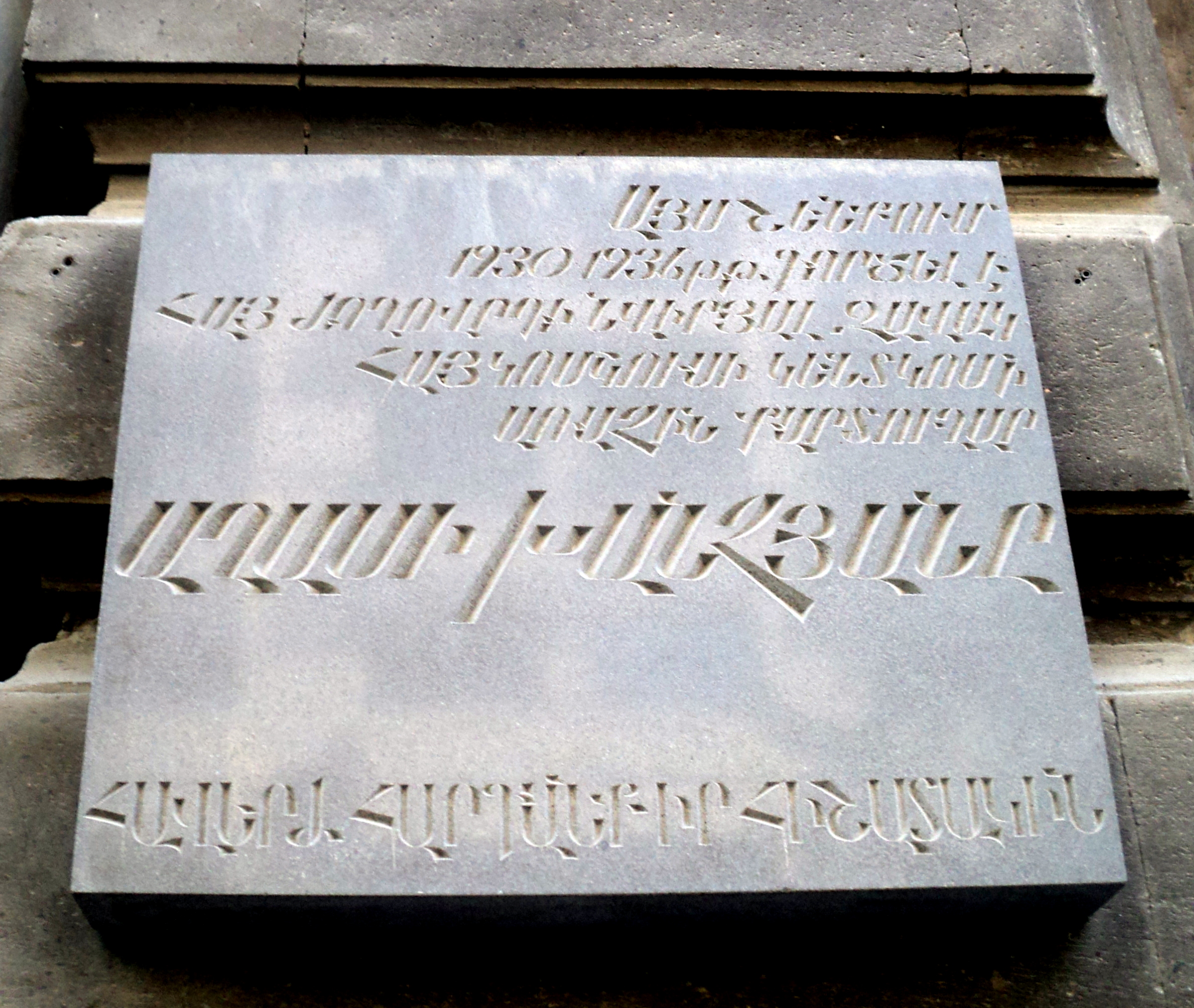 Aghasi Khanjyan's plaque, Yerevan, Abovyan, 8